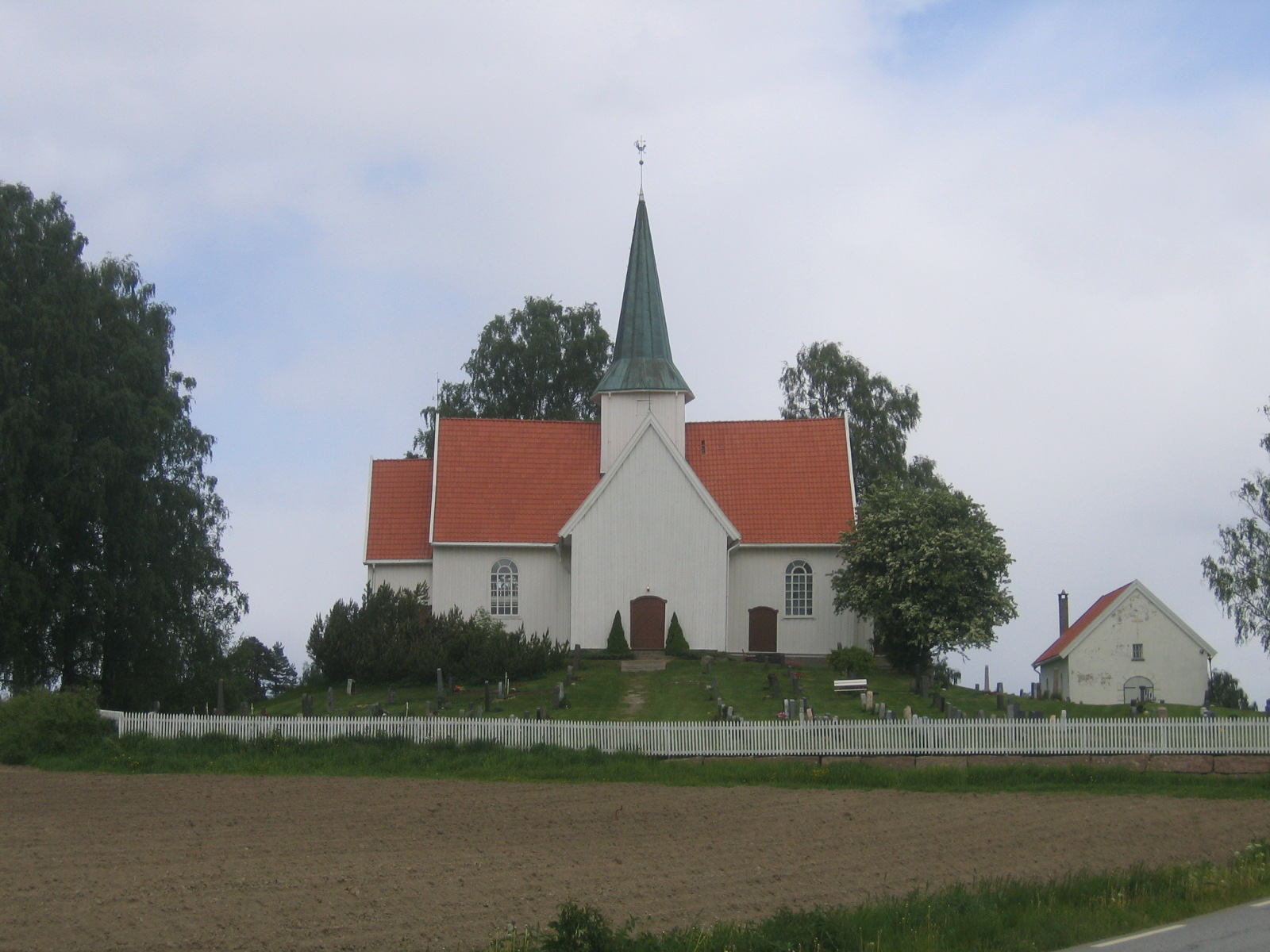 Gjerdrum church